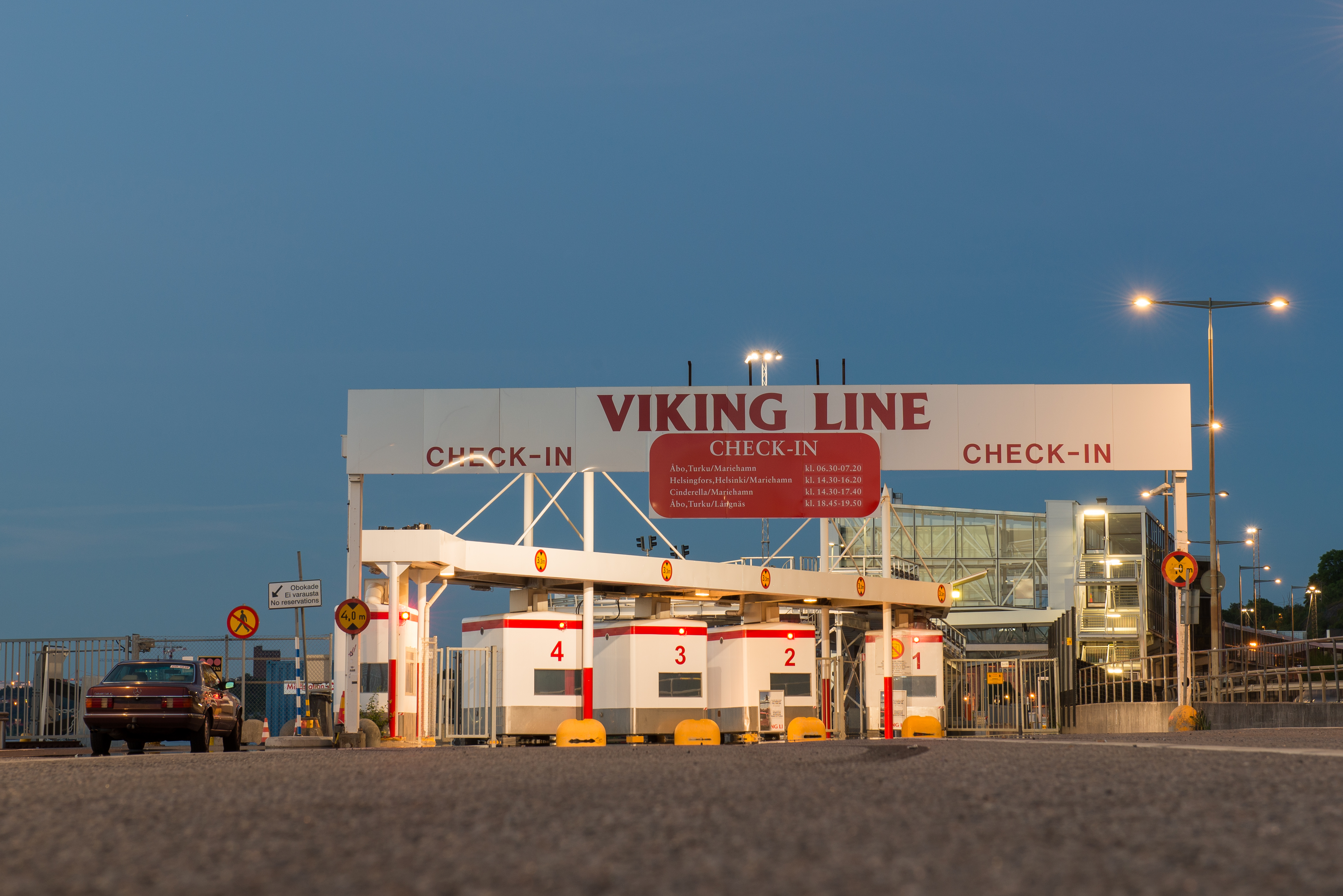 Check-in (car entrance) at the Viking Line ferry terminal in Stockholm.